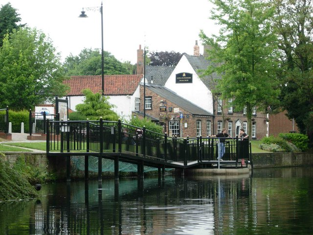 River Welland, Spalding. Showing the terminus of the Spalding Water Taxi and the Lincolnshire Poacher pub.